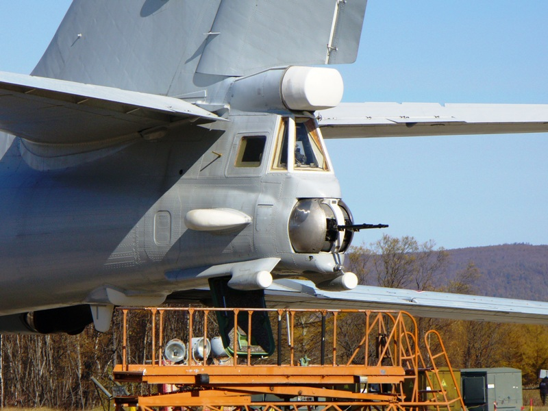 Корма самолёта Ту-142МЗ